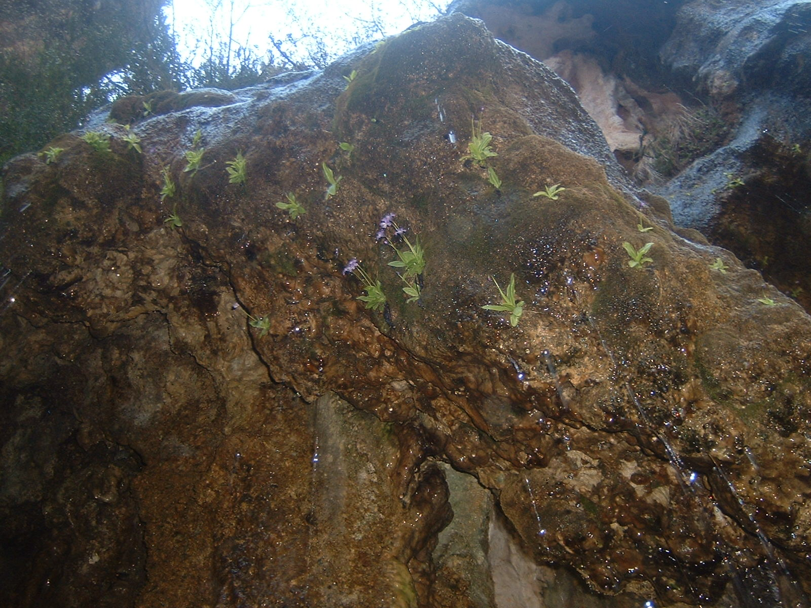 Pinguicula grandiflora (longifolia?) subsp. dertosensis By Philipp Reinhold, 2004.